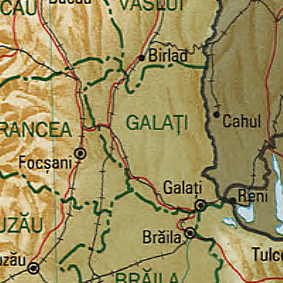 Map of Galați County, Romania.